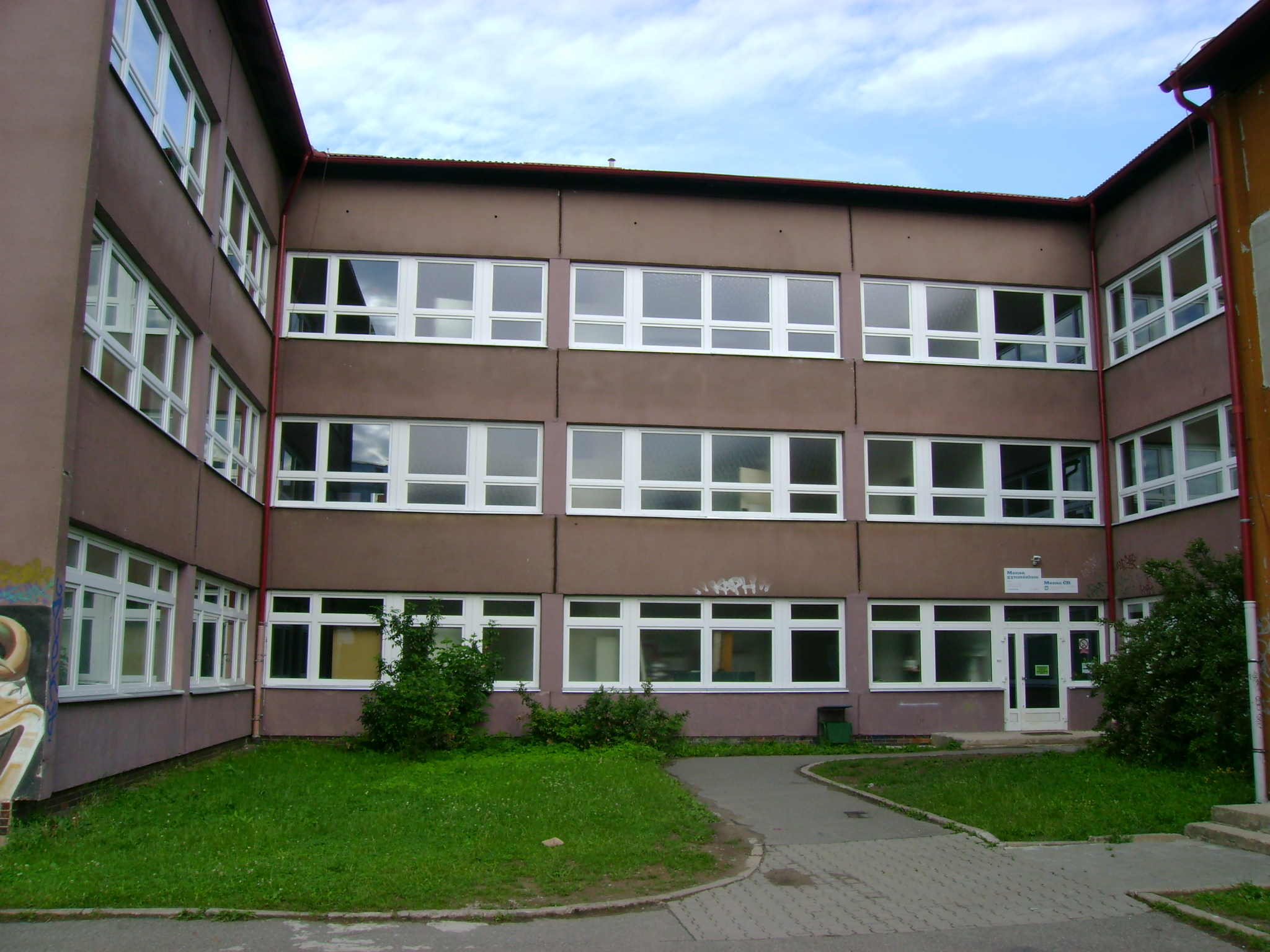 Gymnasium (high school) for gifted children, founded in 1993 by Mensa Czech Republic and from 2010 located in Prague – Řepy in this building.